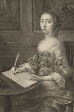 Portrait of Elizabetta de Gambarini, print, frontispiece Object type:print, frontispiece Producer name:print made by Nathaniel Hone. Object title:E Gambarini Technique:mezzotint School / style:British Materials:paper Production date:1748 Subject:musician Department:Prints & Drawings Object reference number:2010,7081.3280